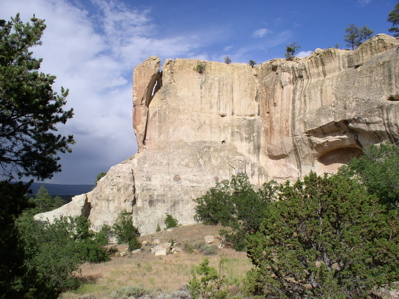 Photo by Matthew A. Lynn